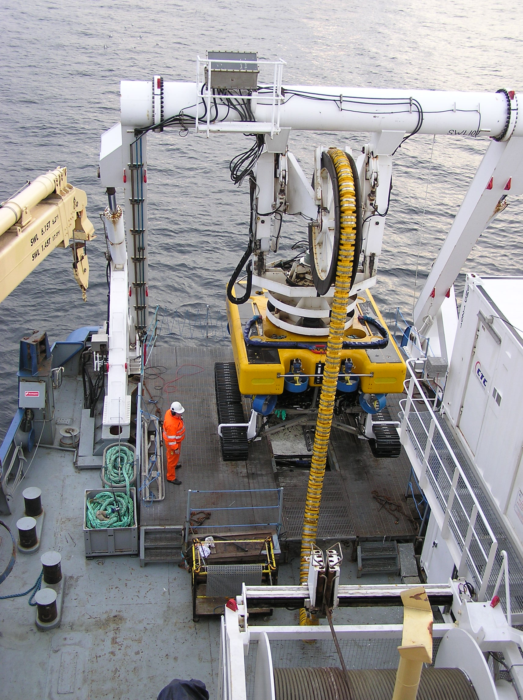 Launching the ROV, TAT-14